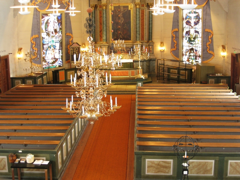 Interior of the Church of Nykarleby, Western Finland.